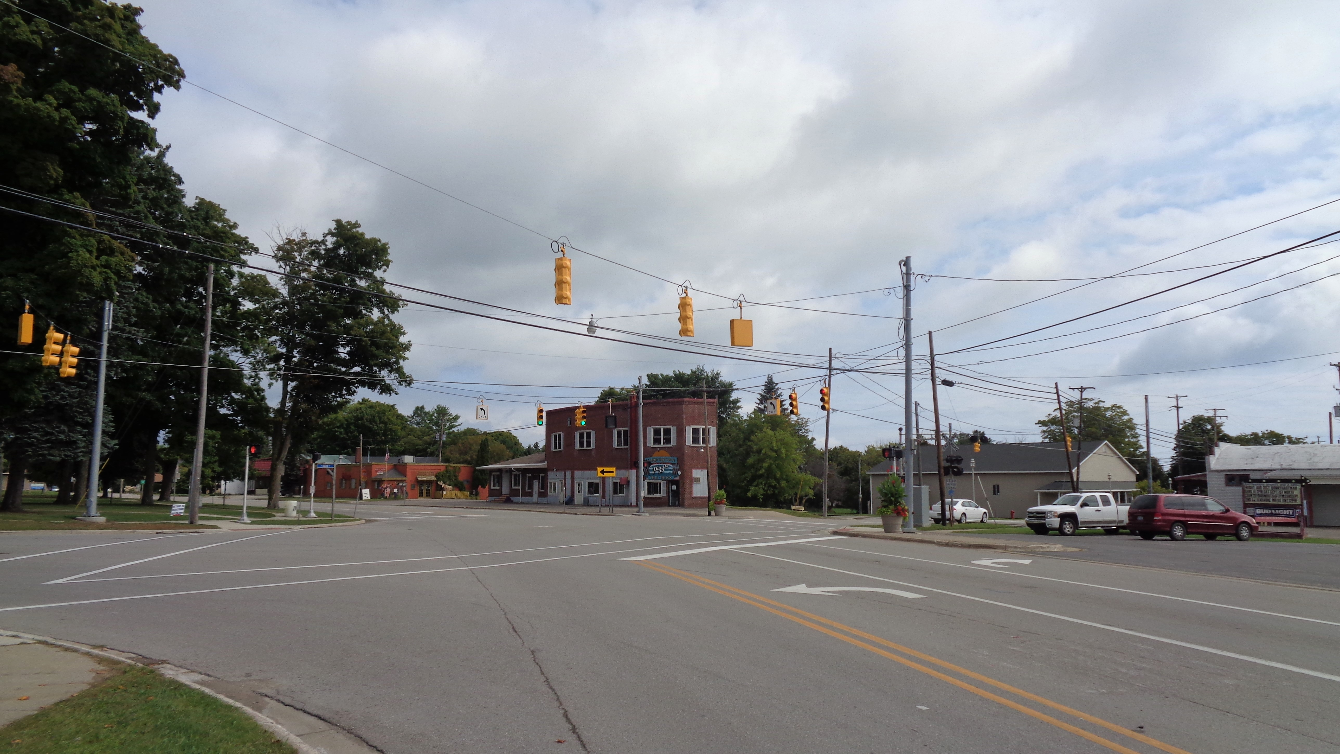 Intersection of US-23 and the terminus of M-72 in Harrisville, Michigan.